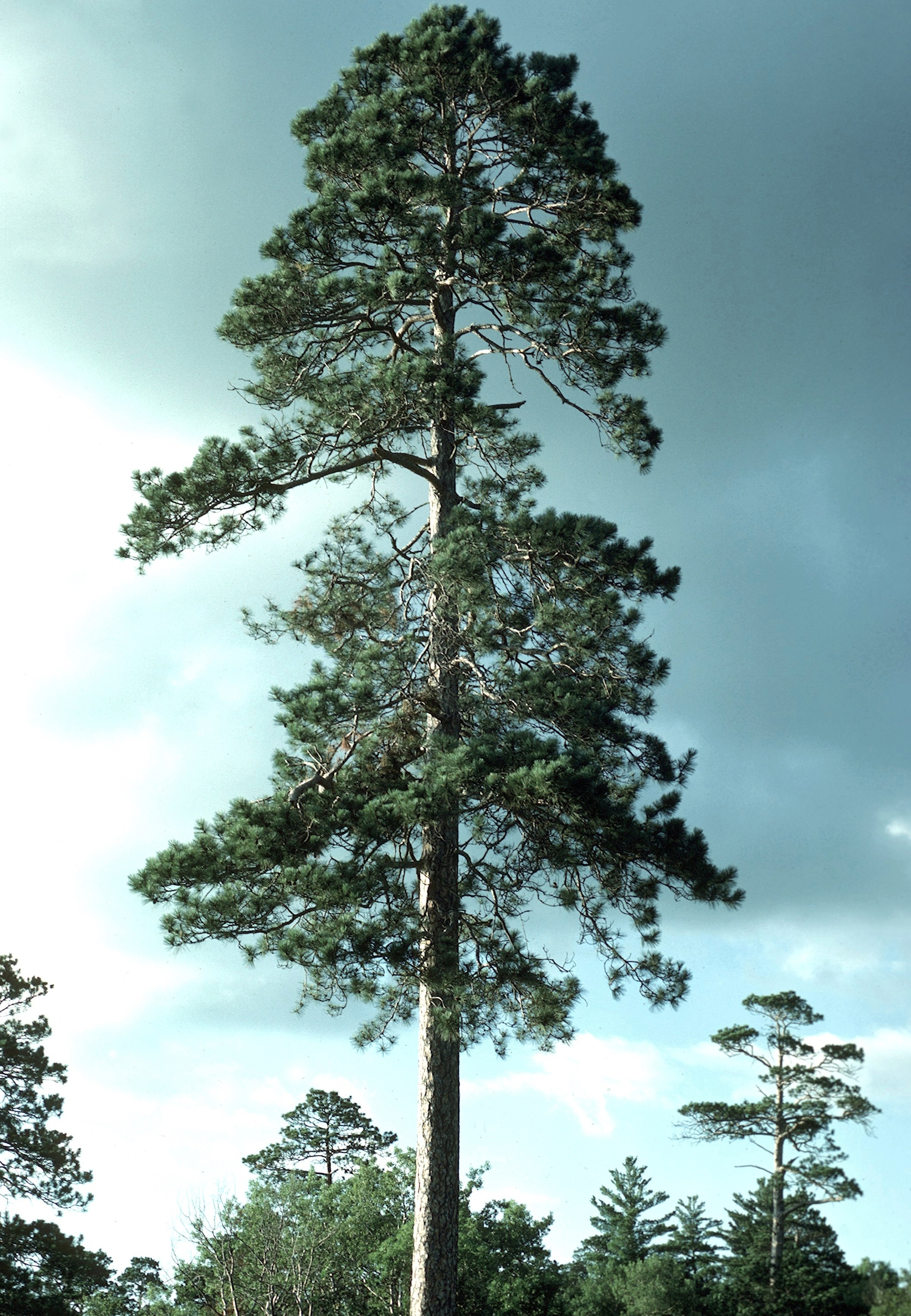 Old Pinus resinosa, Itasca State Park, Minnesota. Same tree as Image:Pinus resinosa1.jpg.